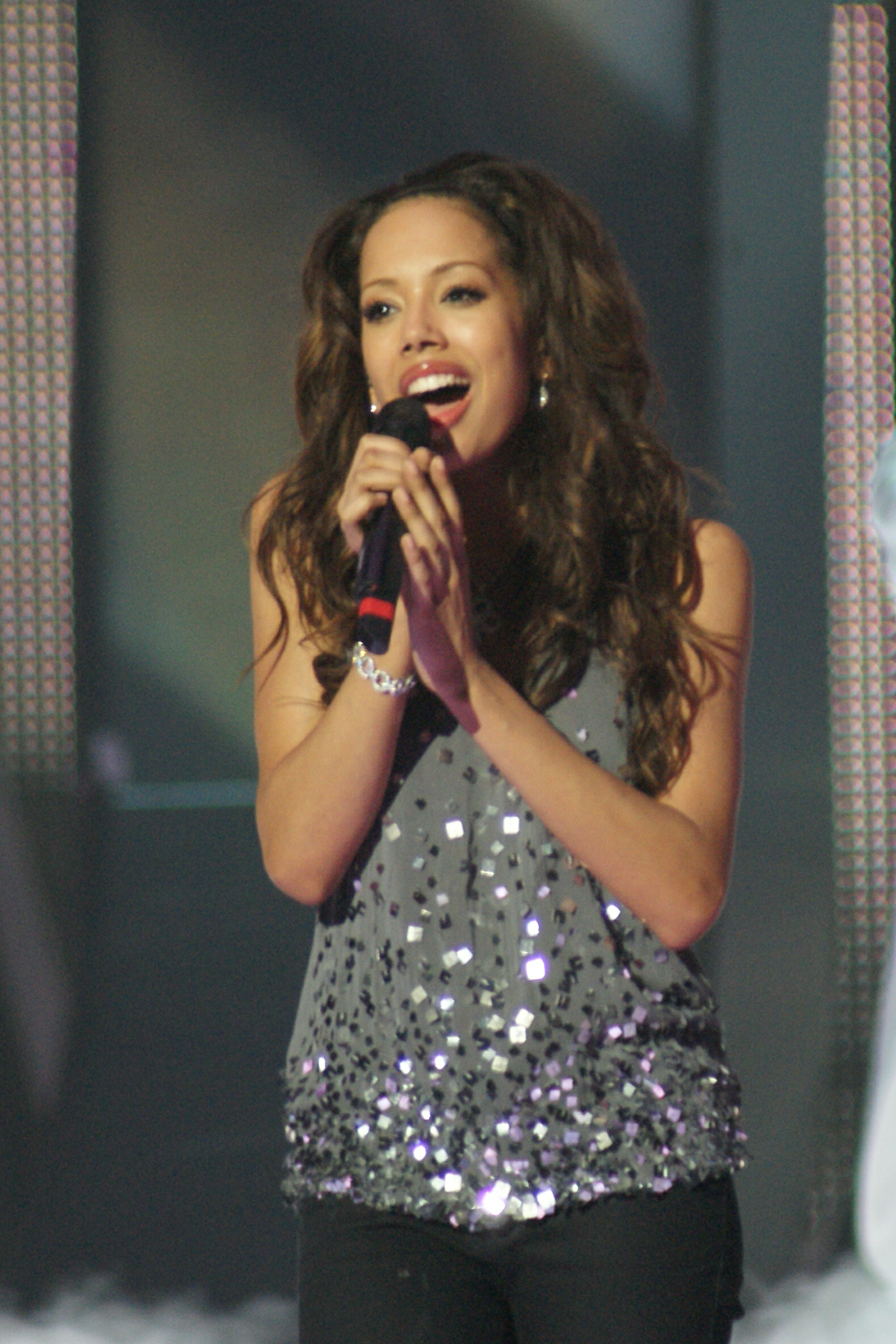 Jade Ewen